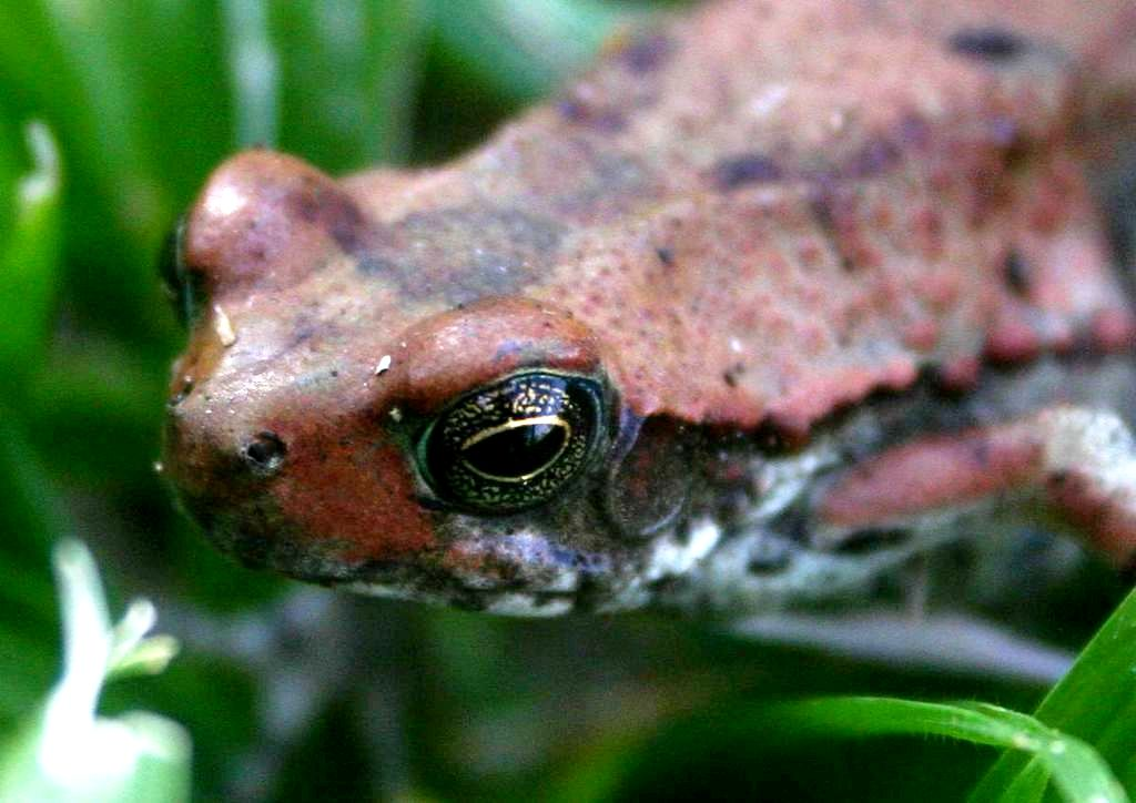 Close-up of an African red toad's head, at Hamerkop near Sparkling Waters, Magaliesberg, South Africa